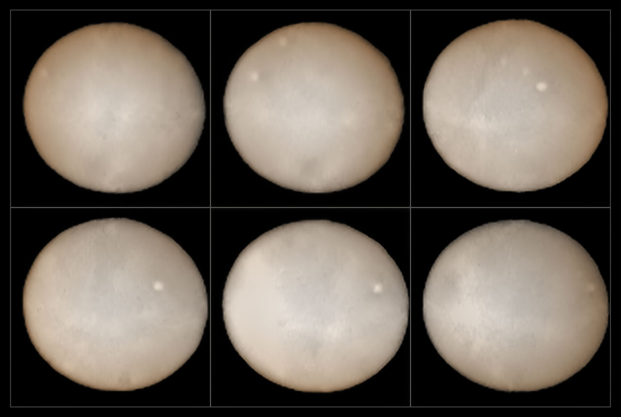 These images, taken two weeks apart, show the two hemispheres of Ceres and provide the best ground-based observations of the dwarf planet ever. They were taken using the SPHERE instrument on ESO's Very Large Telescope and form part of an effort undertaken since mid-July 2015 to compose a polarimetric map of the object's surface. Orbiting in the asteroid belt between Mars and Jupiter, a region known as the asteroid belt, Ceres was the first asteroid to be discovered in 1801 and is the largest belt asteroid. It is the largest reservoir of water in Earth's neighbourhood. Most of this water is thought to exist in the form of water ice in the object's mantle. The surface of the dwarf planet is about the size of India and several intriguing bright spots can be seen in these new images. These mysterious bright patches have also been looked at more closely by NASA's Dawn spacecraft, currently in orbit around Ceres. Astronomers have scrutinised them, but their true nature remains obscure. It is hoped, however, that by comparing the data obtained using SPHERE with the images Dawn is sending to Earth, astronomers should soon be able to begin decoding the Ceres enigma.